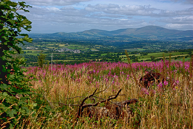 Carlow Countryside from Graiguenamanagh